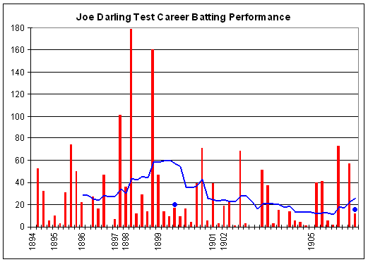 Test batting chart of Joe Darling. Red columns are the runs in the innings. Blue dots indicate not outs. Blue line is average in the last ten innings. Thanks to Raven4x4x for providing the template.